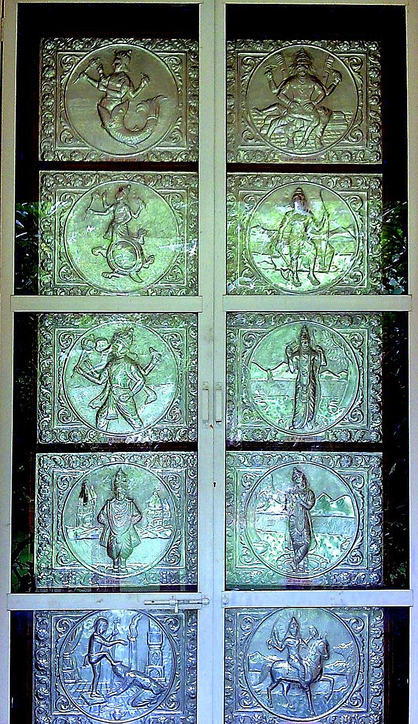 Shot by Nibu with his mobile cam...at Sree Balaji Temple, Goa.. Good in large size... For details ref